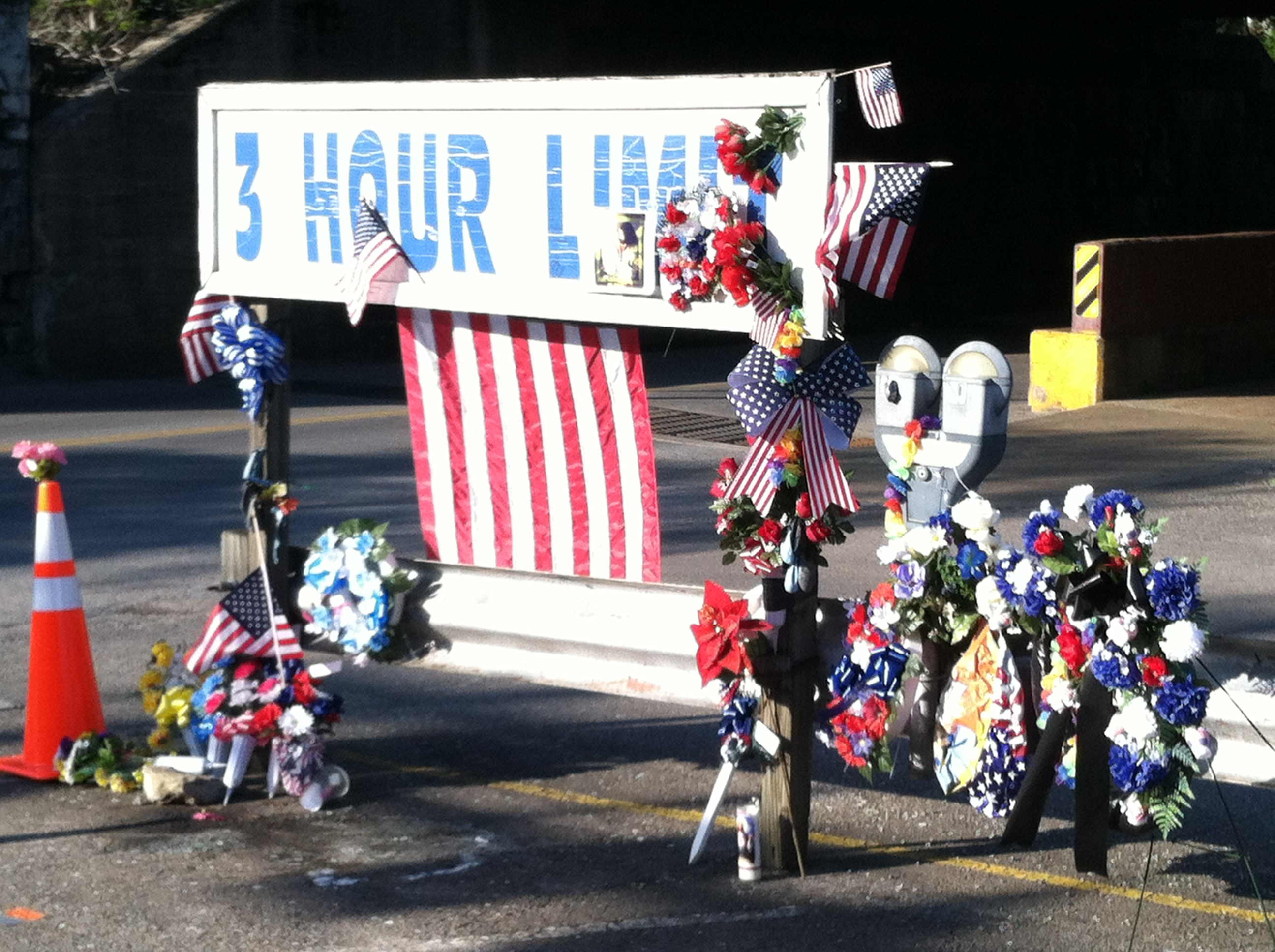 This is a picture of the parking lot where Eugene Crum was killed. It now serves a temporary memorial.